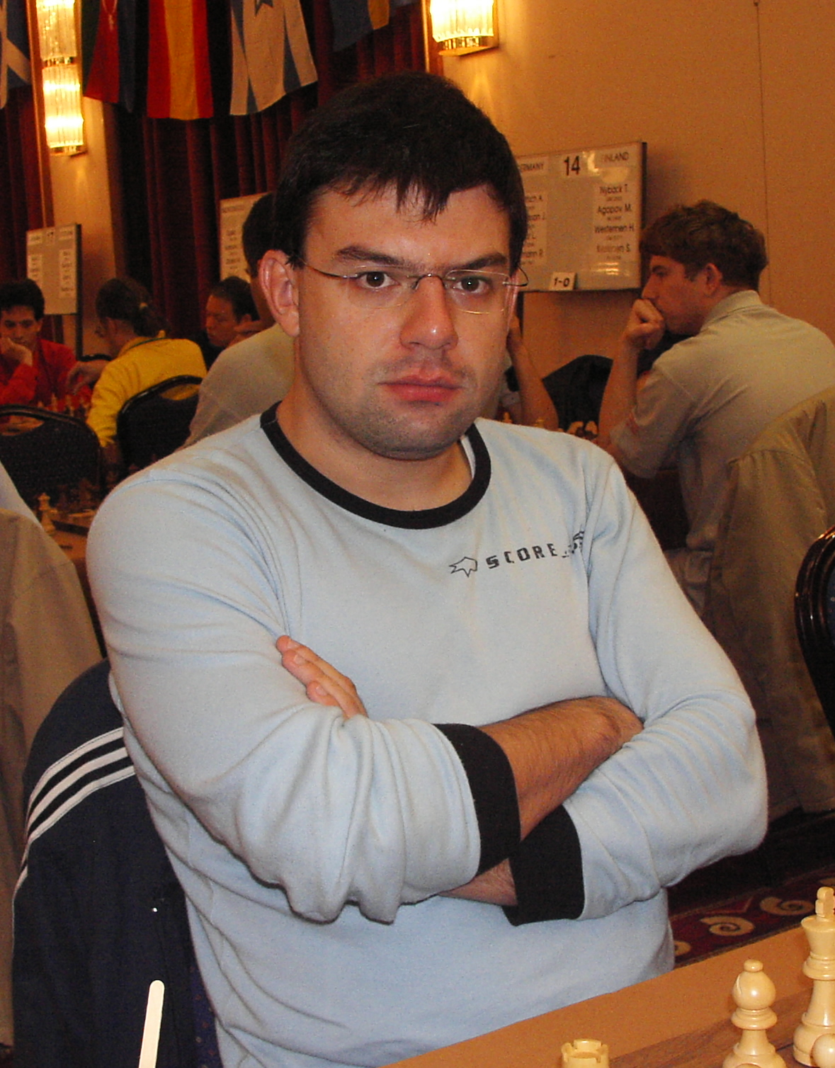 GM Stelios Halkias (Greece), Heraklion 2007